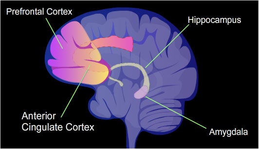 The structures of the brain identified here are involved in long-term memory formation.[1]